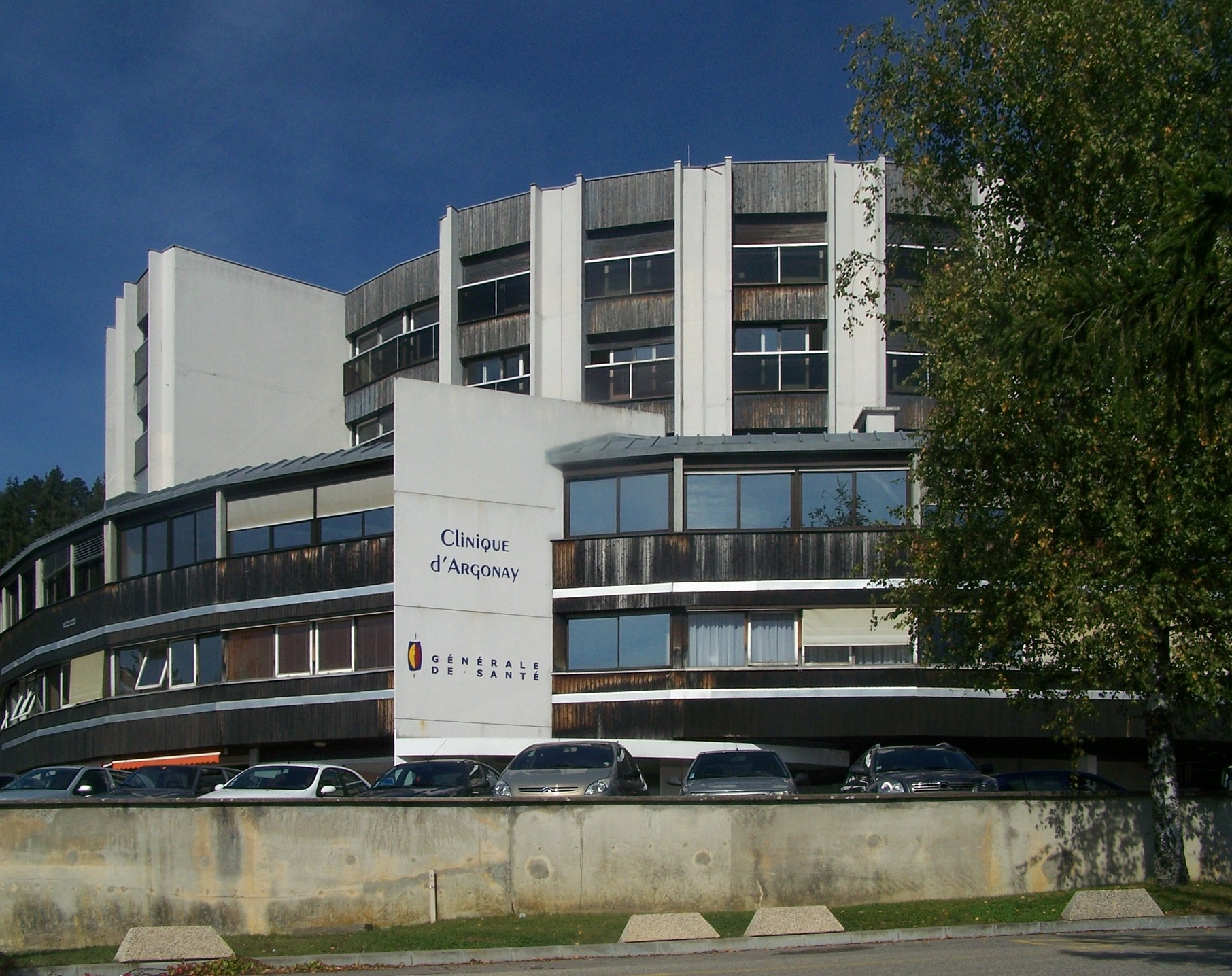 Front of the city of Argonay's clinic.